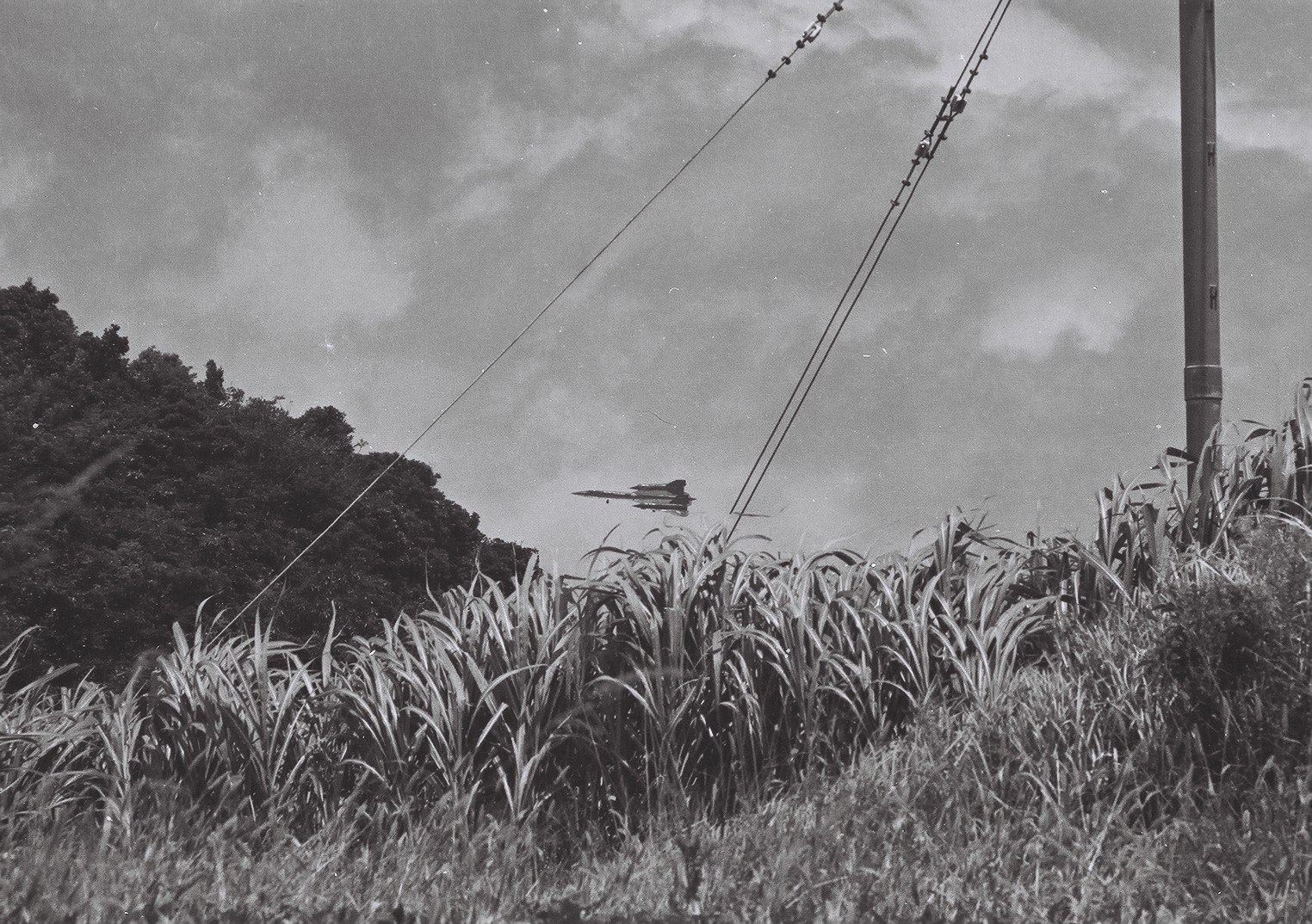 SR-71 'Habu' over Okinawa, Japan circa 1970